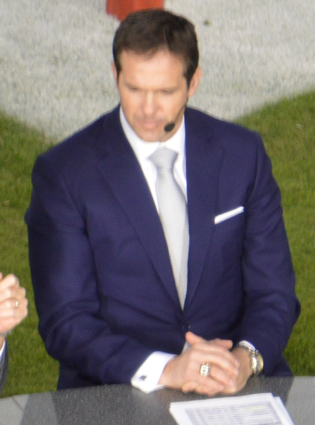 ESPN analysts Scott Van Pelt, from left, Brian Griese, Mark May and Kirk Herbstreit, before the 2013 Stanford-Oregon game